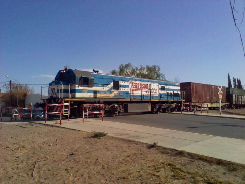 FerrosurRoca Train in Neuquén Argentina.